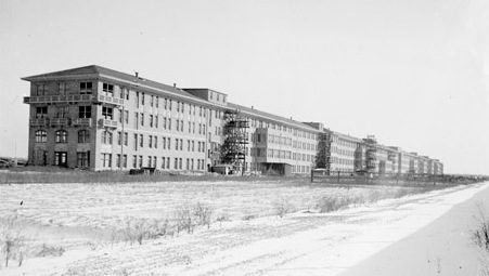 Exterior view of the entire length of Speedway Hospital (today the Edward Hines, Jr., Veterans Administration Hospital) in Chicago, Illinois